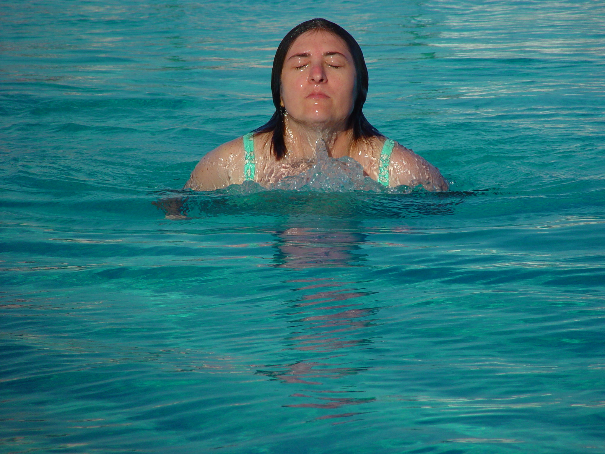 Swimming